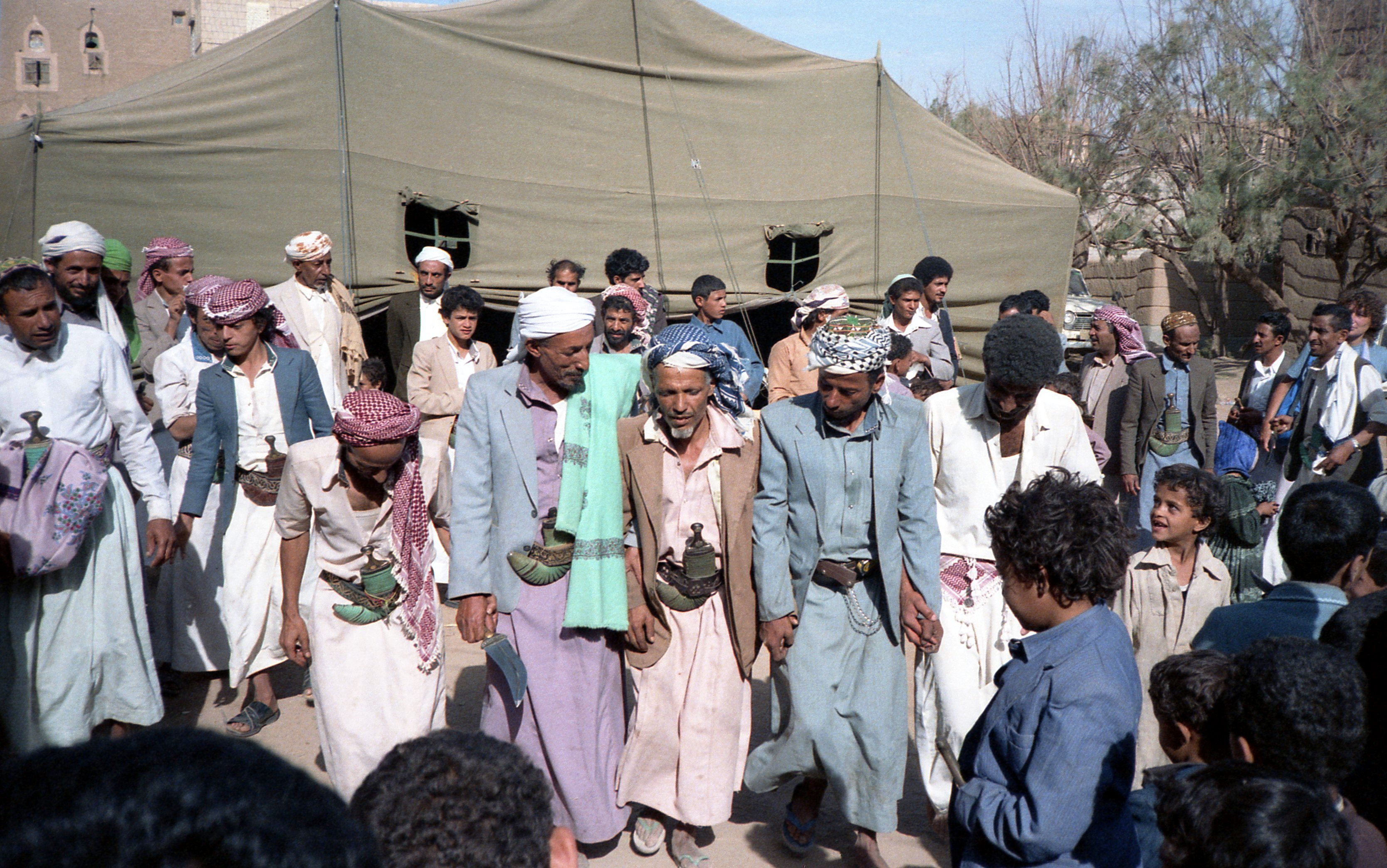 Dance in Sa'dah, Yemen